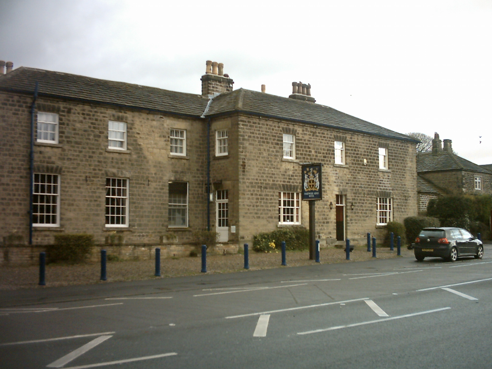 Harewood Arms, Harewood, West Yorkshire